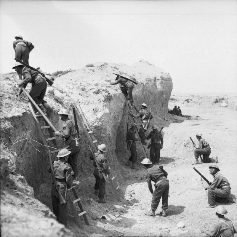 The British Army in Tunisia 1943 Infantry demonstrate how they used ladders to scale the sides of Wadi Zigzuoa on the Mareth line, 27 March 1943.